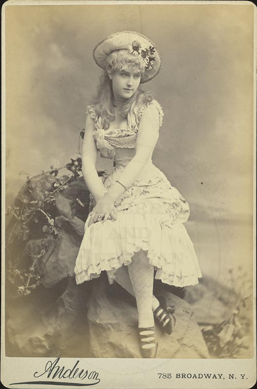 1882 photo of Lillian Russell in the Bijou Opera House production of Gilbert and Sullivan's Patience